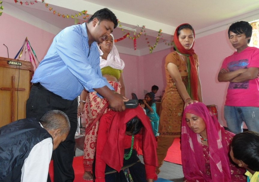 Laying on of hands for healing, in a church in Bhaktapur, Nepal.